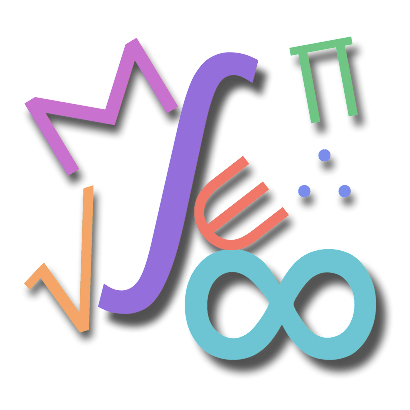 Math Mark